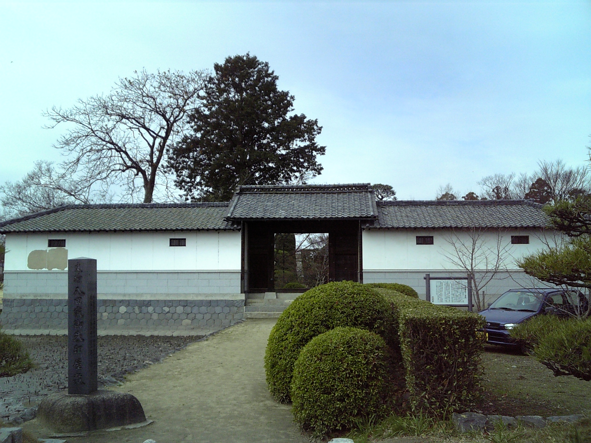 Traditional local administrative organ architecture at Isawa-Jinya